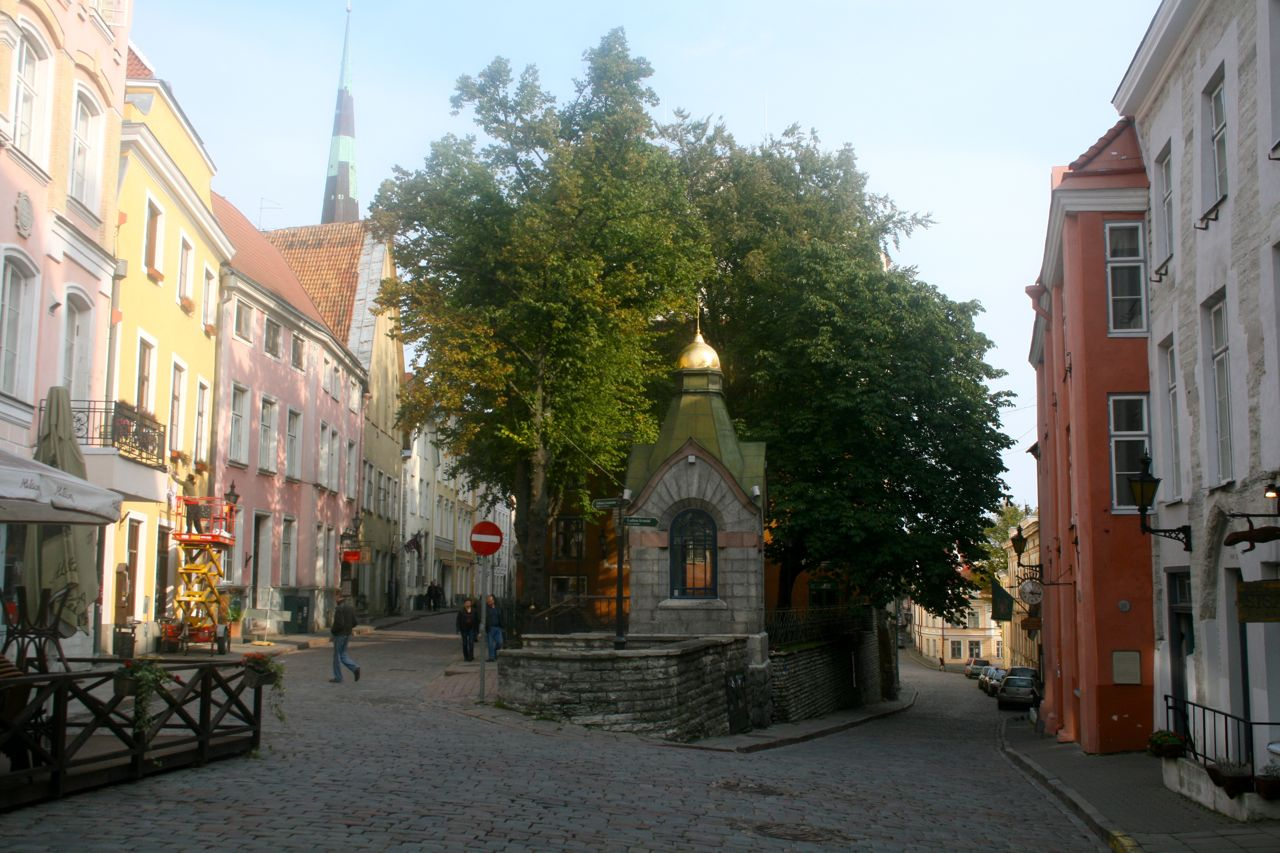 Green Market in Tallinn old town.